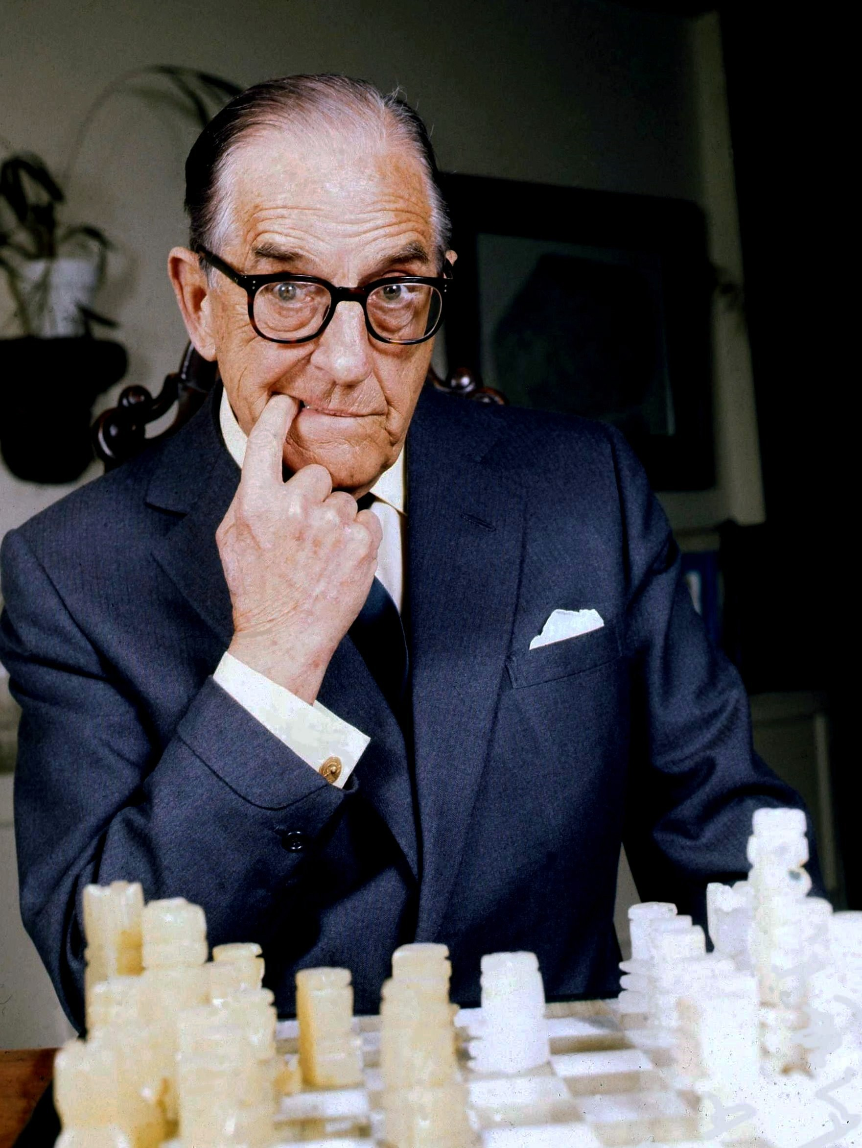 Portrait of Stanley Holloway taken at the London studio of Allan Warren